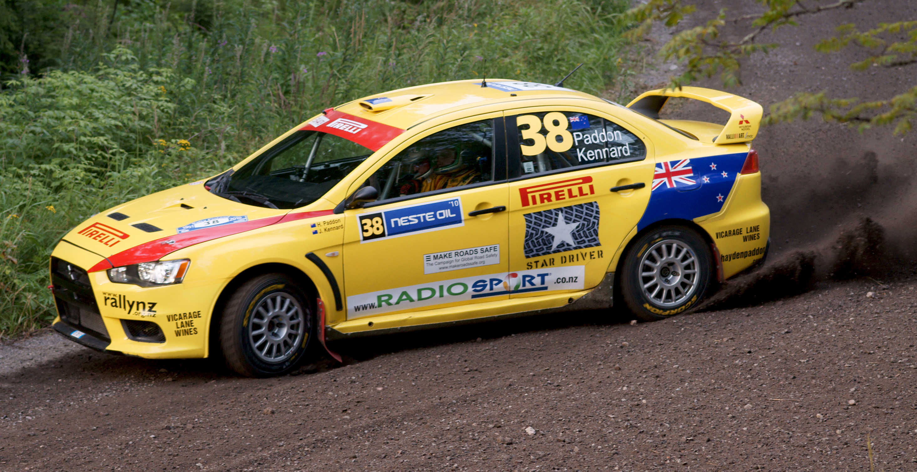 Hayden Paddon driving at Laajavuori special stage, Rally Finland 2010.